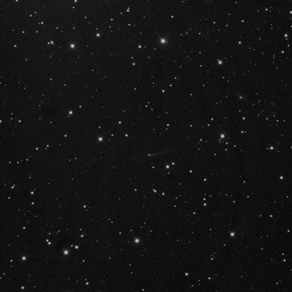 This April 30, 2014 image was taken using the NASA Marshal Space Flight Center 20" telescope located in New Mexico. A 3-minute exposure, it shows 14th magnitude Comet 209P/LINEAR shining faintly among the stars of Ursa Major. At the time of this image, 209P was just over 40 million km from Earth, heading for a relatively close approach (8.3 million km) with us on May 29, 2014.